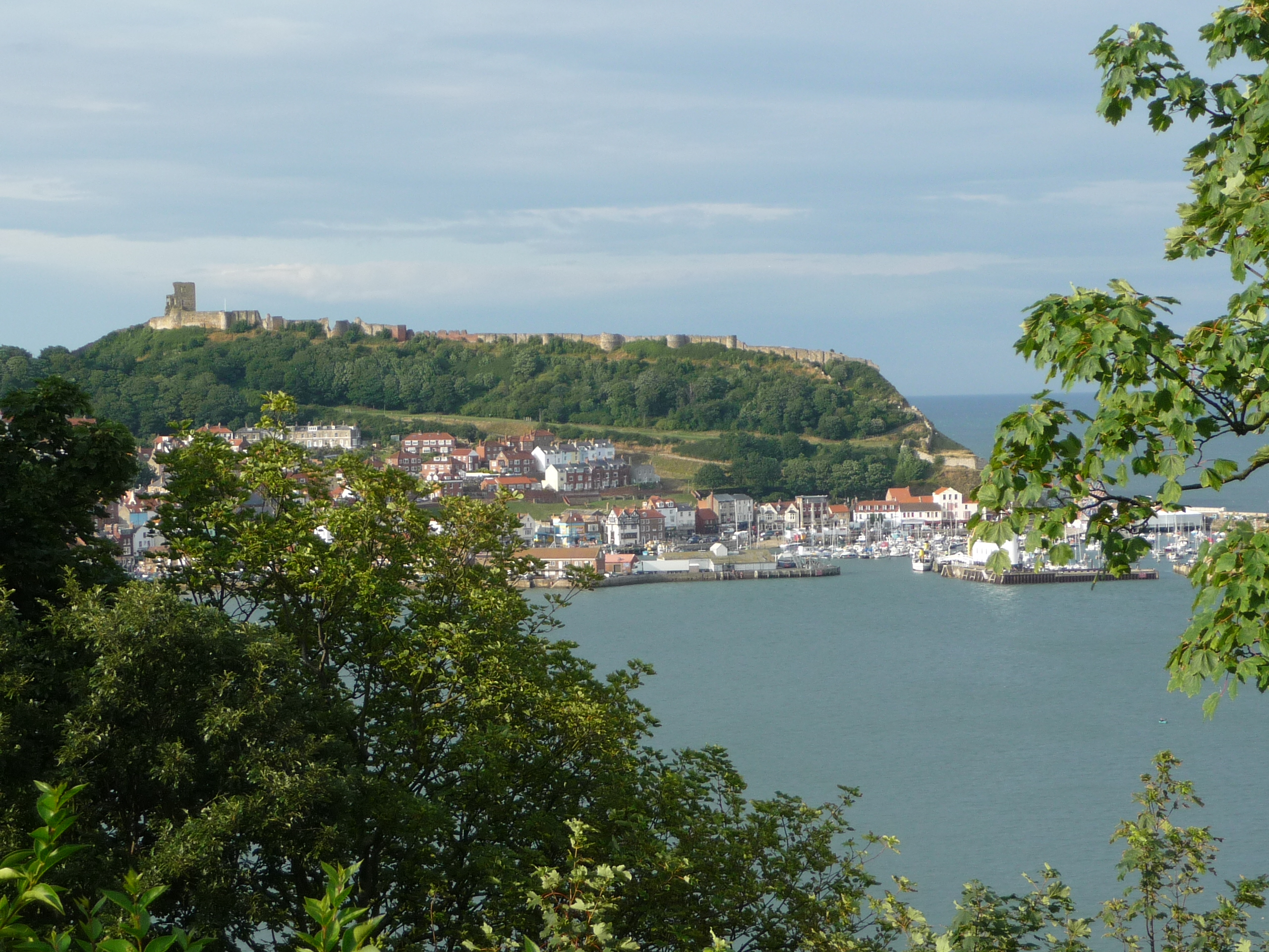 Scarborough in North Yorkshire, United Kingdom